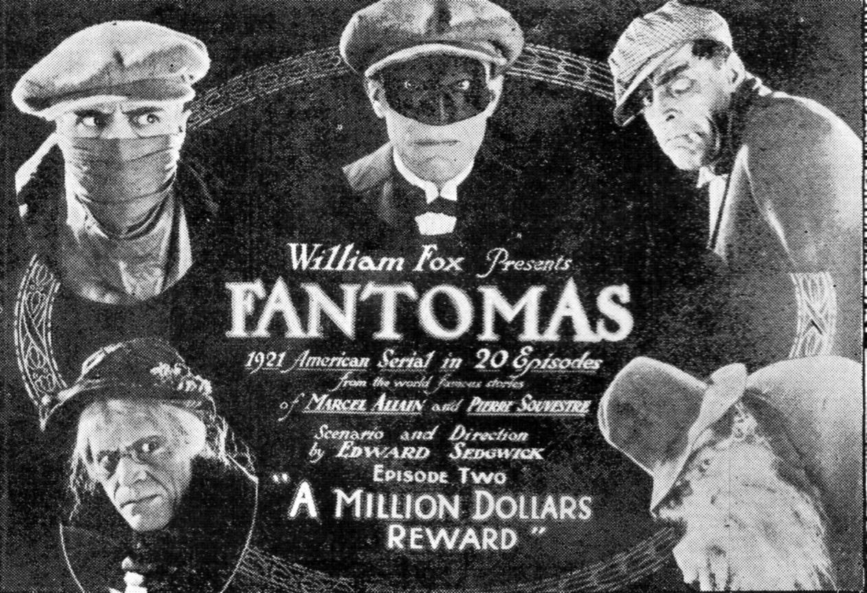 Advertisement for episode 2 "A Million Dollars Reward" from the American silent serial Fantômas (1920) (which had some episodes released in 1921).